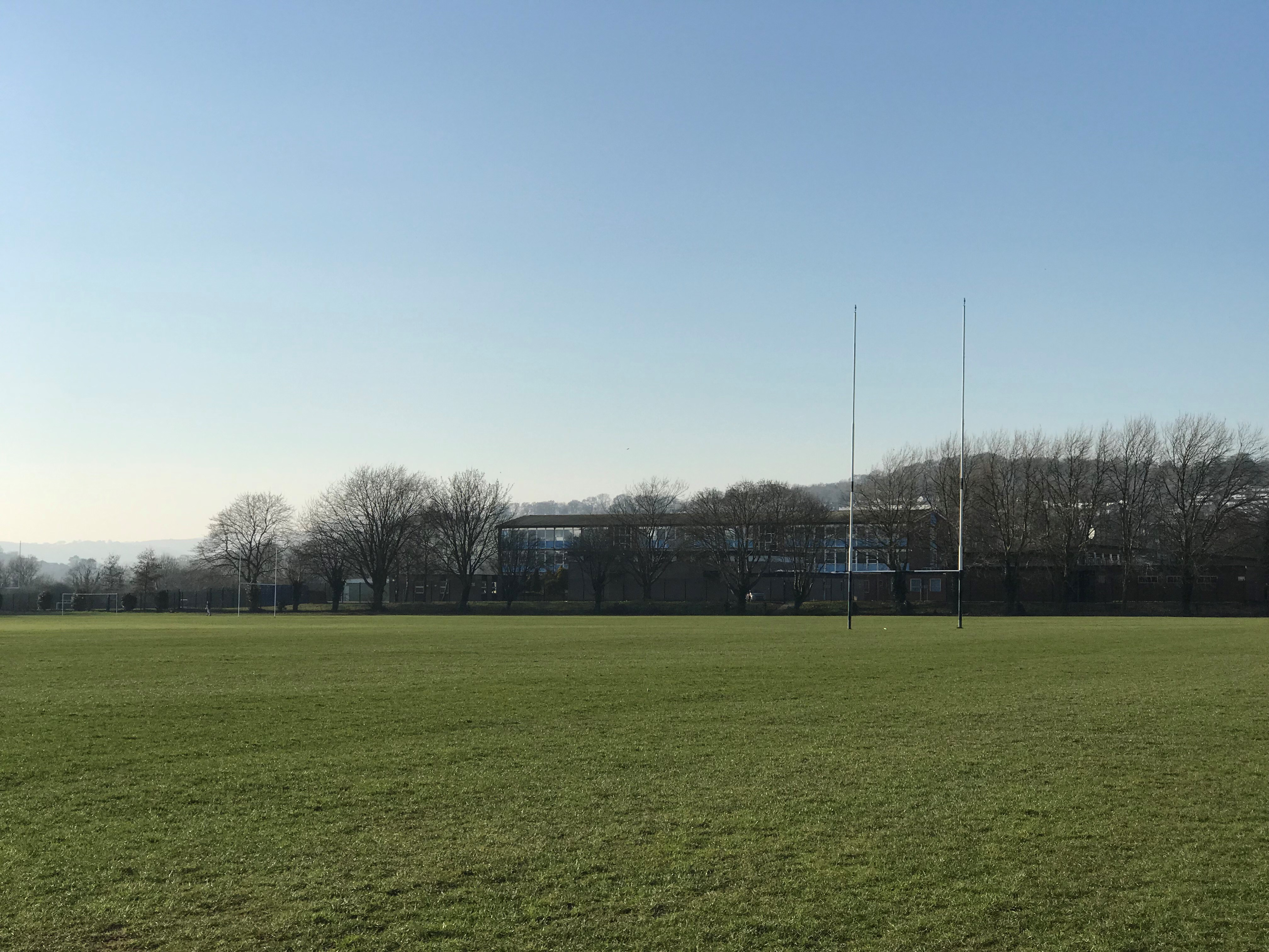 The Cricket Pavillion in the town of Caerleon, Wales. In the background is Caerleon Comprehensive School.